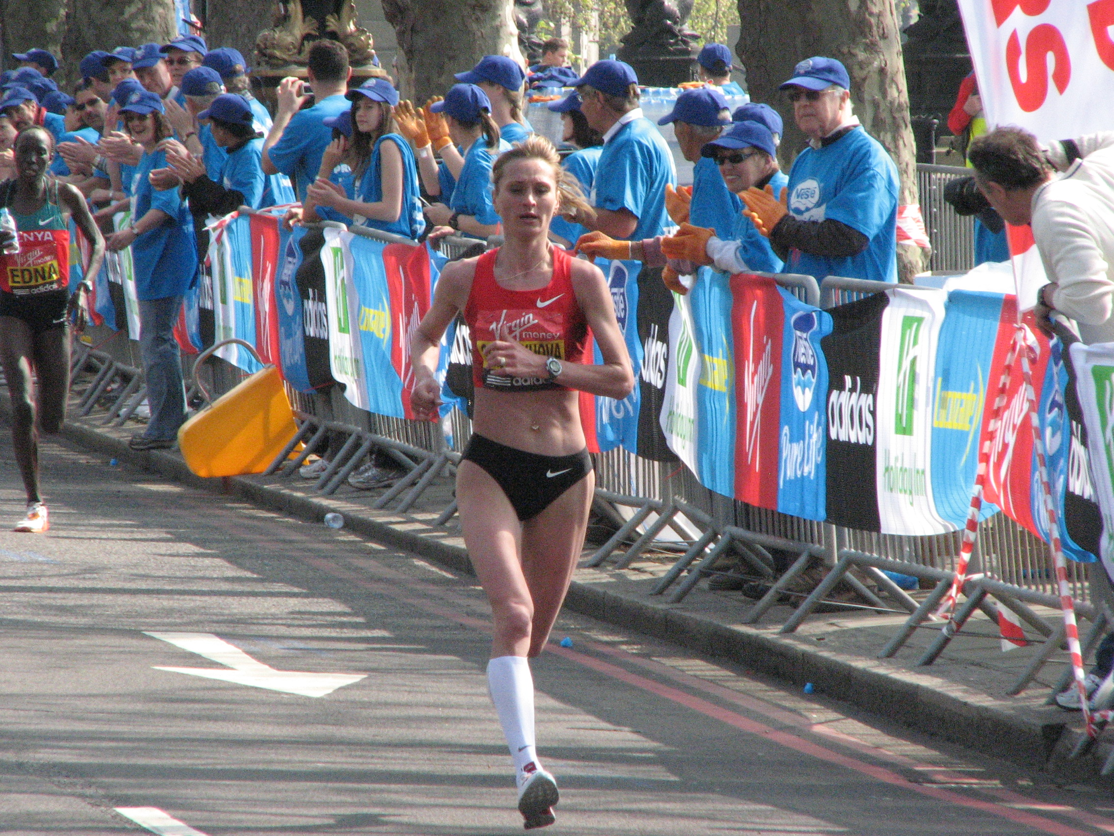 Defending champion Liliya Shobukhova came in second in 2:20:15, setting a Russian record. Virgin London Marathon, 17 April 2011. Taken from 24 and a half miles, at the (western) junction of Victoria Embankment and Temple Place, very close to the Walkabout.